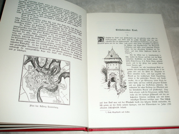 Illustrated pages from book by Luxembourg author and illustrator Michel Engels entitled "Bilder aus der ehemaligen Bundesfestung Luxemburg"